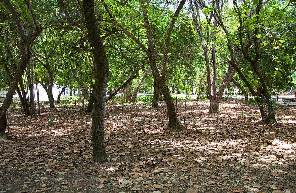 Dunas Park in Natal, Brazil.